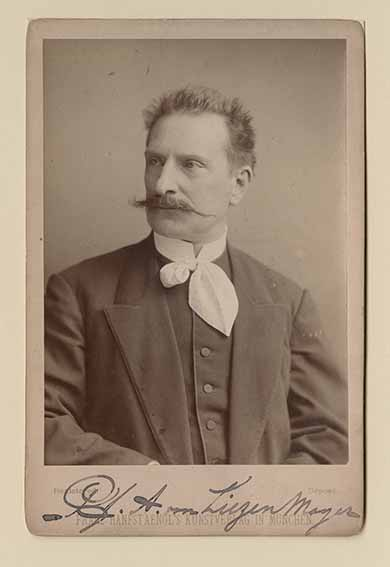 The hungarian-bavarian painter Alexander von Liezen-Mayer / Liezen-Mayer Sándor (1839-1898)